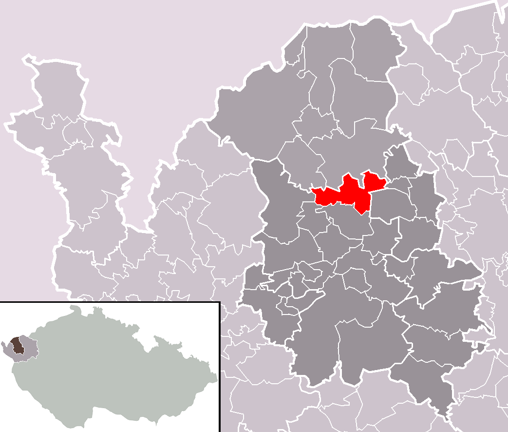 Location of Dolní Nivy municipality within Sokolov District and administrative area of Sokolov as a Municipality with Extended Competence.